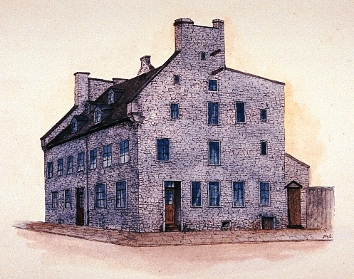 Hon.bl J. Viger. 1st Mayor. Corner Notre Dame & St. Peter. Sts., John Hugh Rosslabel QS:Len,"Hon.bl J. Viger. 1st Mayor. Corner Notre Dame & St. Peter. Sts., John Hugh Ross" label QS:Lfr,"Résidence de l'honorable J. Viger, 1er maire, angle des rues Notre-Dame et Saint-Pierre"